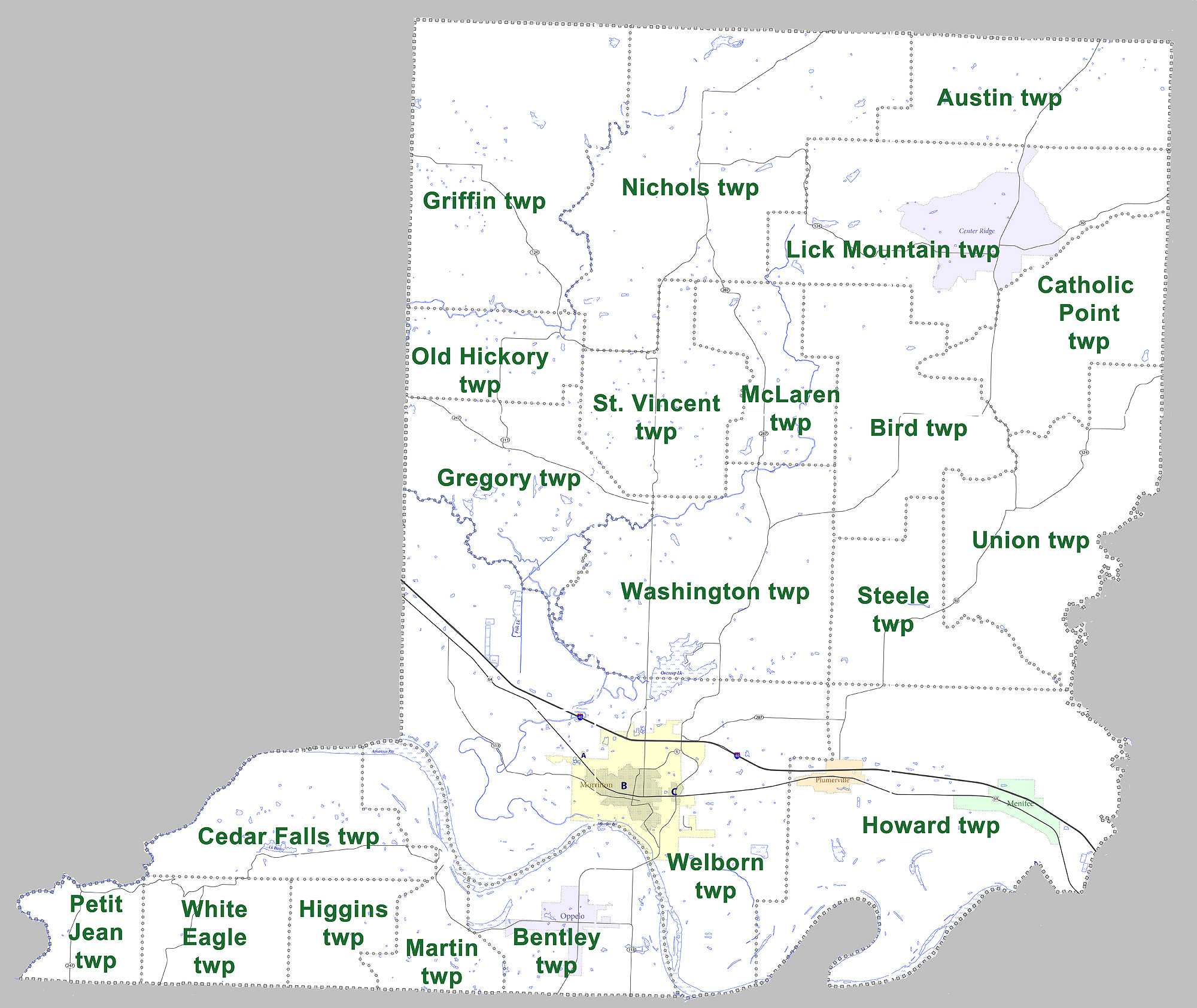 Large map showing townships in Conway County, Arkansas. Modified from US census map (for 2010 census) for Conway County, Arkansas